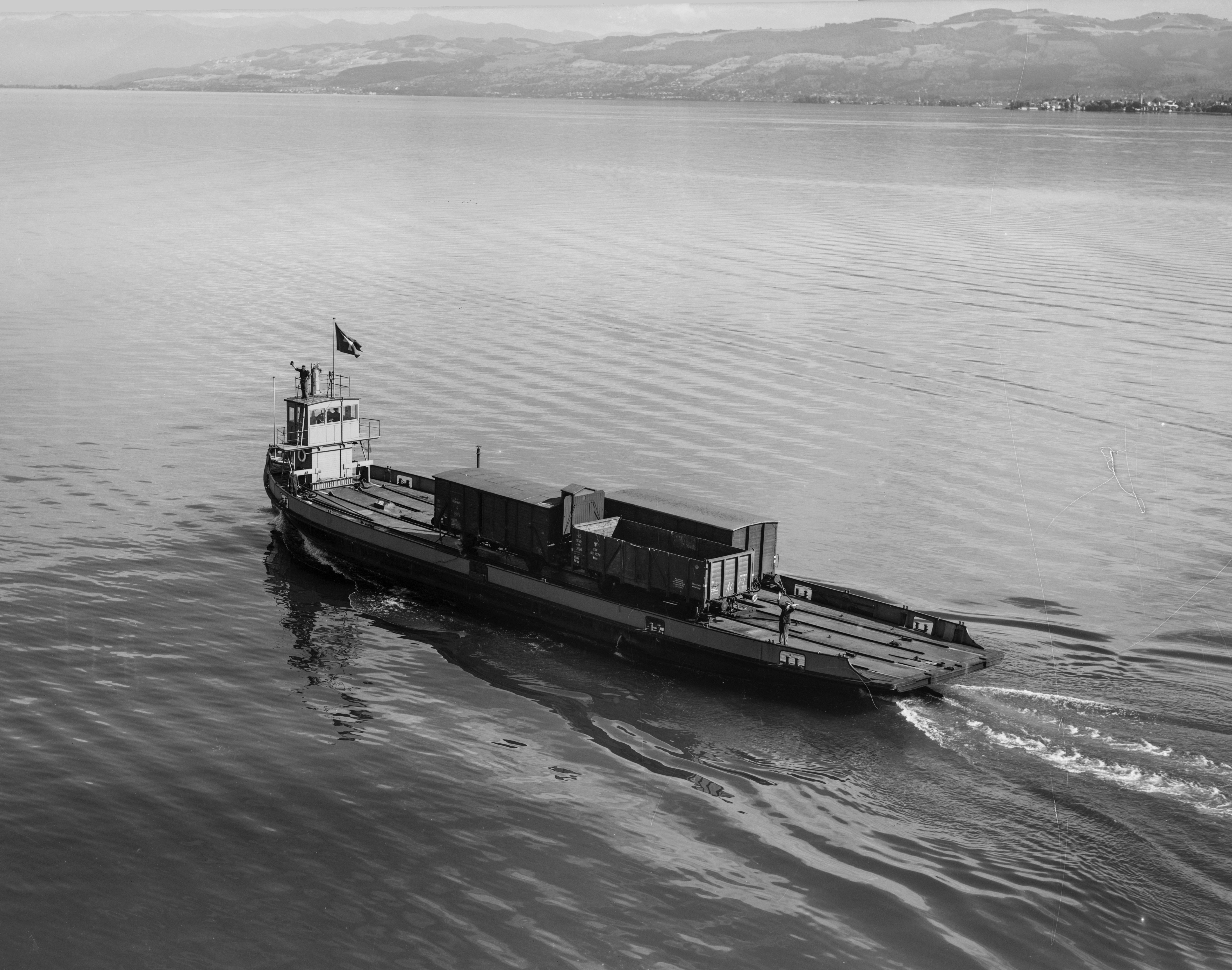 Motor train ferry of the Swiss Federal Railways near Romanshorn, viewed from the north. The ship carries freight wagons from Poland and Austria.